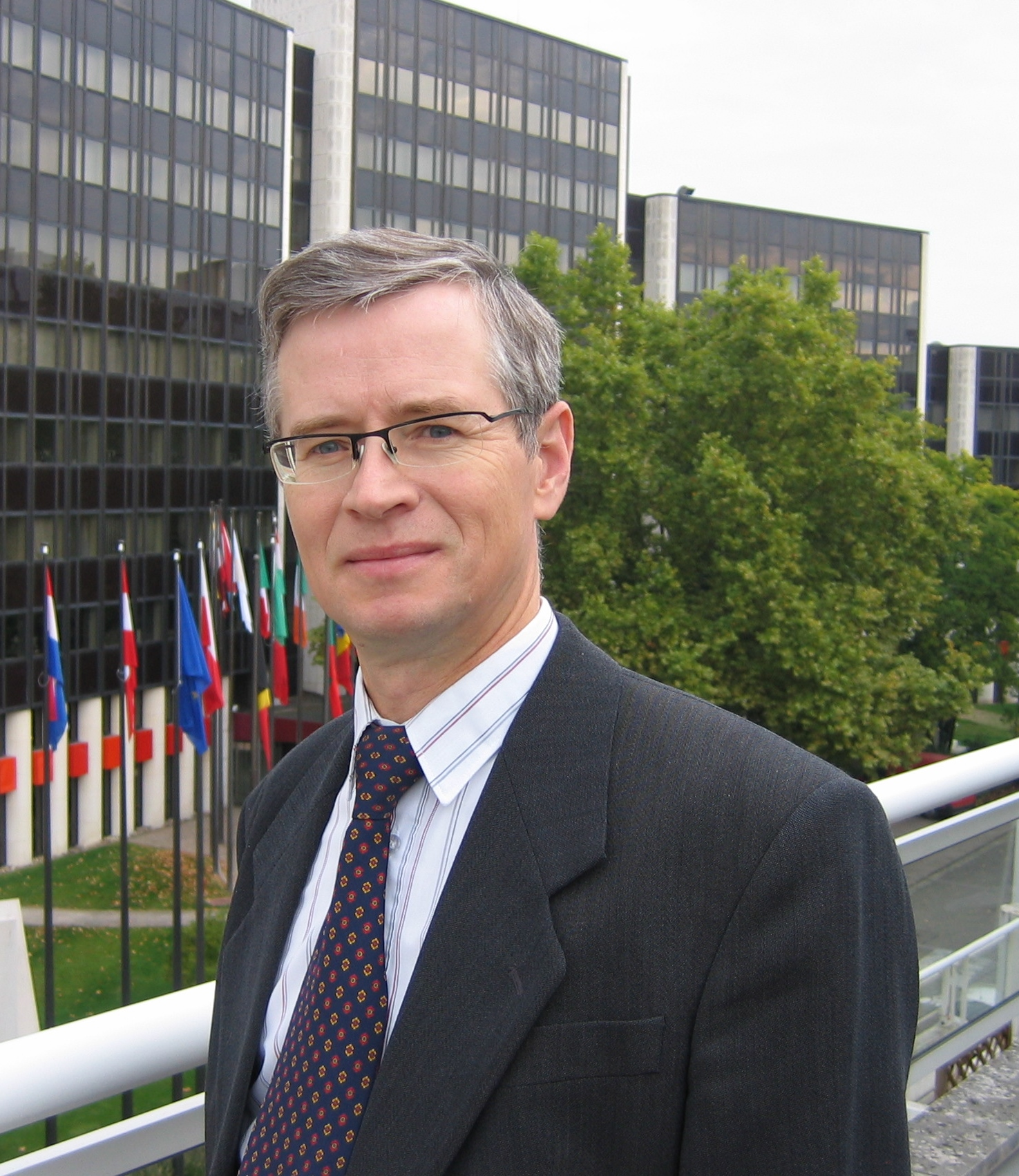 Imre Siil